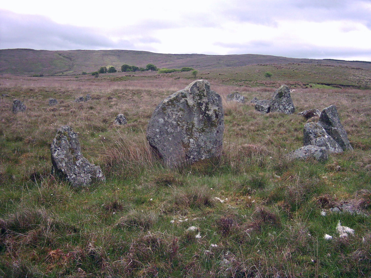 A stone circle next to the stone rows on the peatland at Corick. The peat is rather deep, so there may be much more yet to be found at the site.